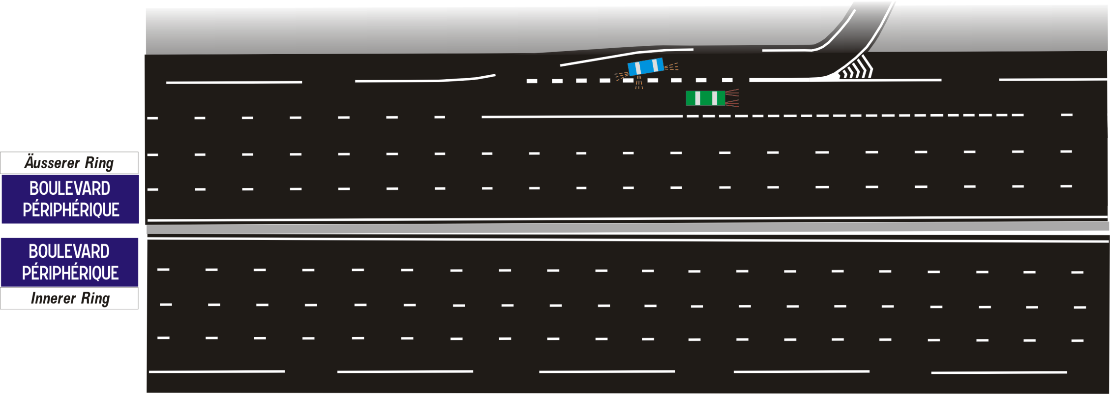 Boulevard périphérique Vorfahrt Priorité